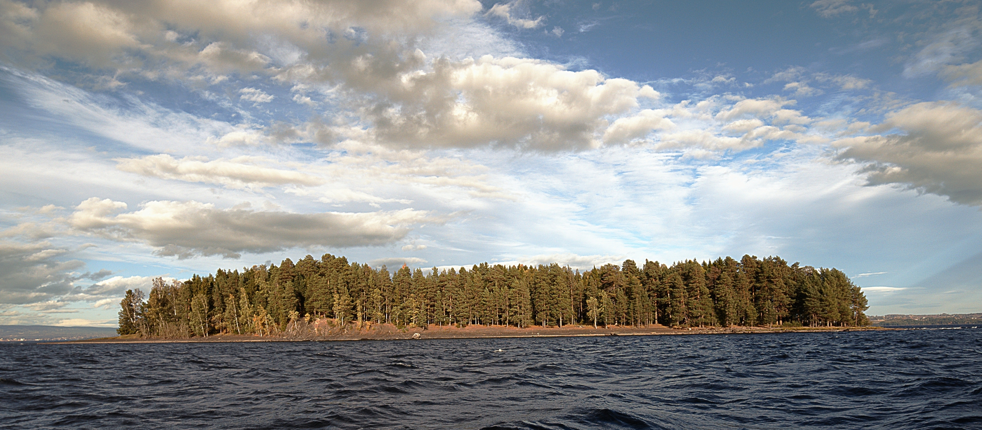 Hovinsholmen, Ringsaker, Norway. From west.